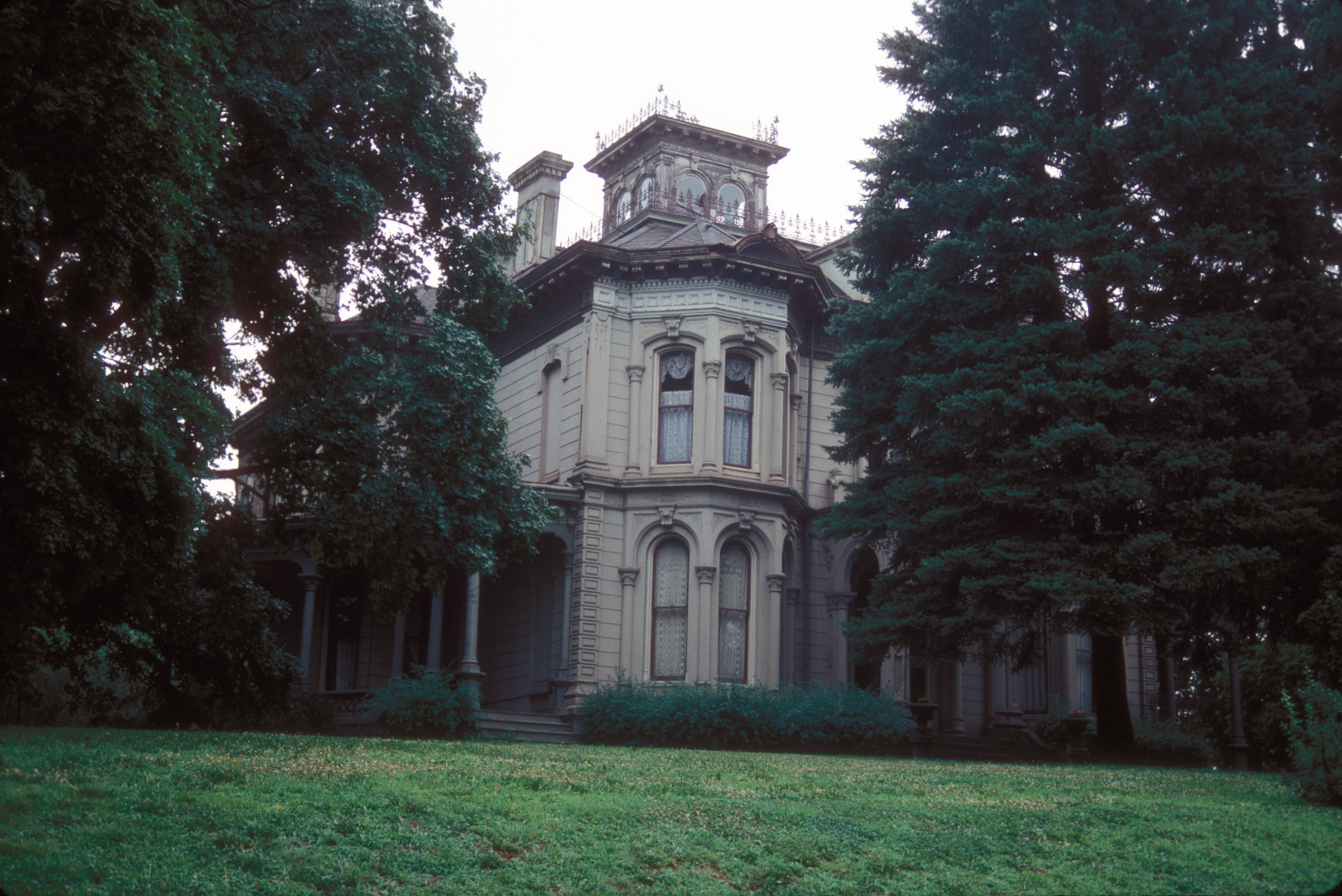 ADAM SCHUSTER HOUSE- ONE OF THE FINEST EXAMPLES OF ITALIANATE ARCHITECTURE BUILT IN 1881 FOR A WEALTHY FINANCIER BY EDMOND ECKEL